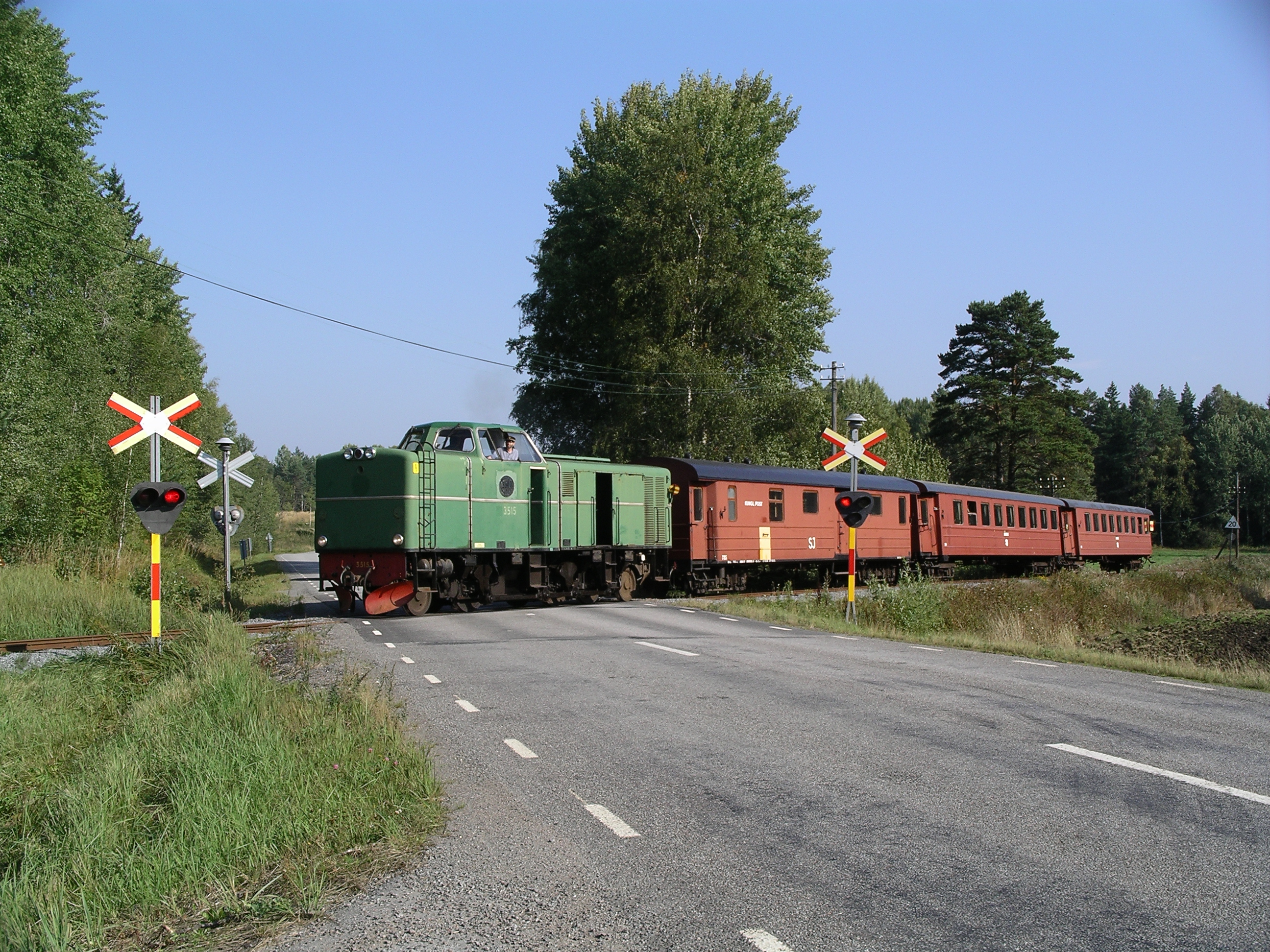 Diesel locomotive TP 3515 with passenger coaches at Upsala-Lenna Jernväg, Uppsala County, Sweden